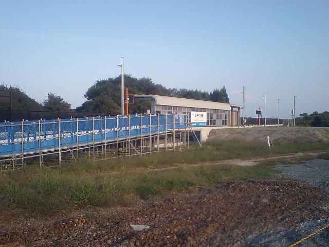 JR West Sakai Line Yonago Airport Station